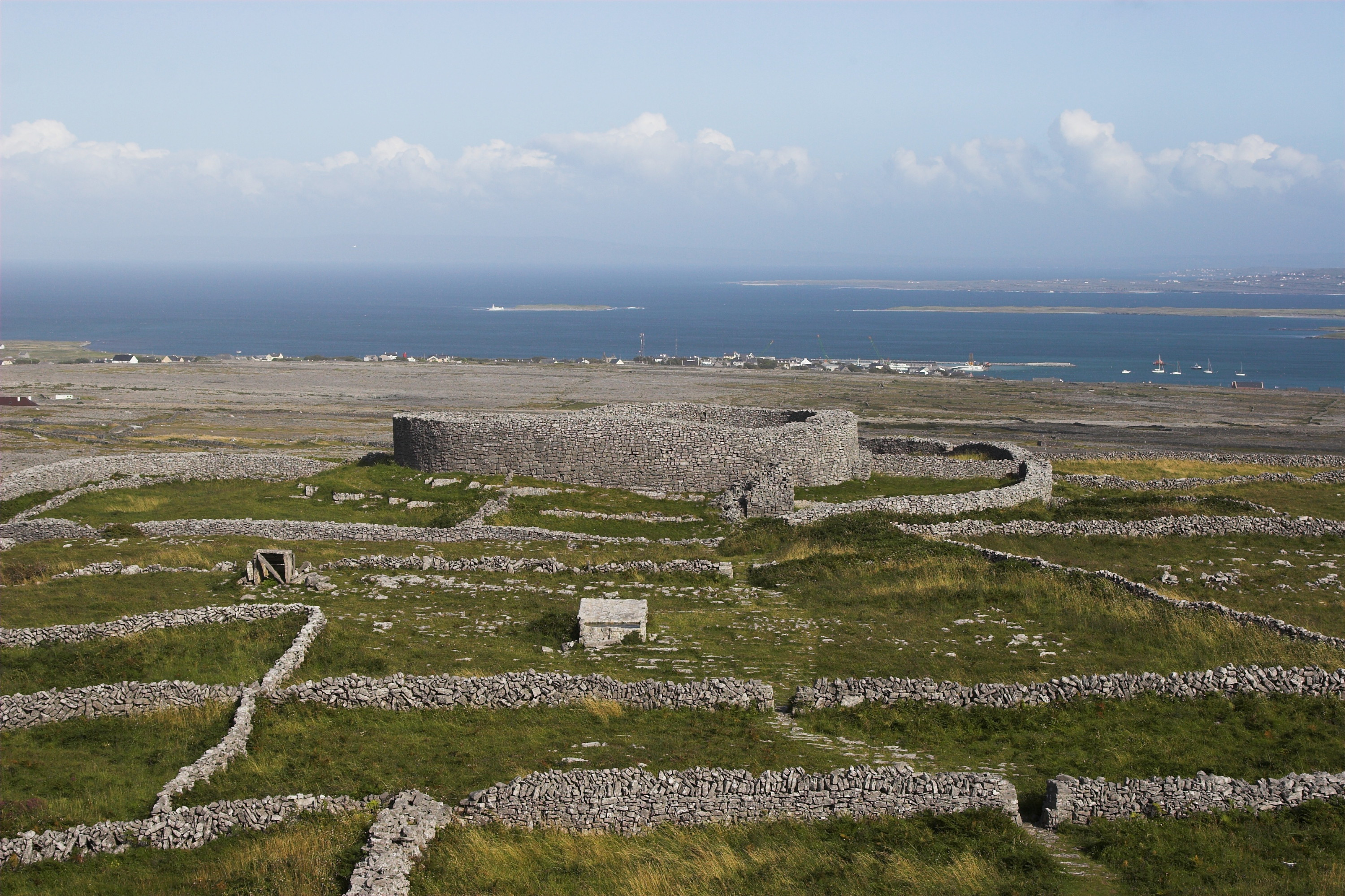 Dún Eochla, seen from the west, taken from the old lighthouse.